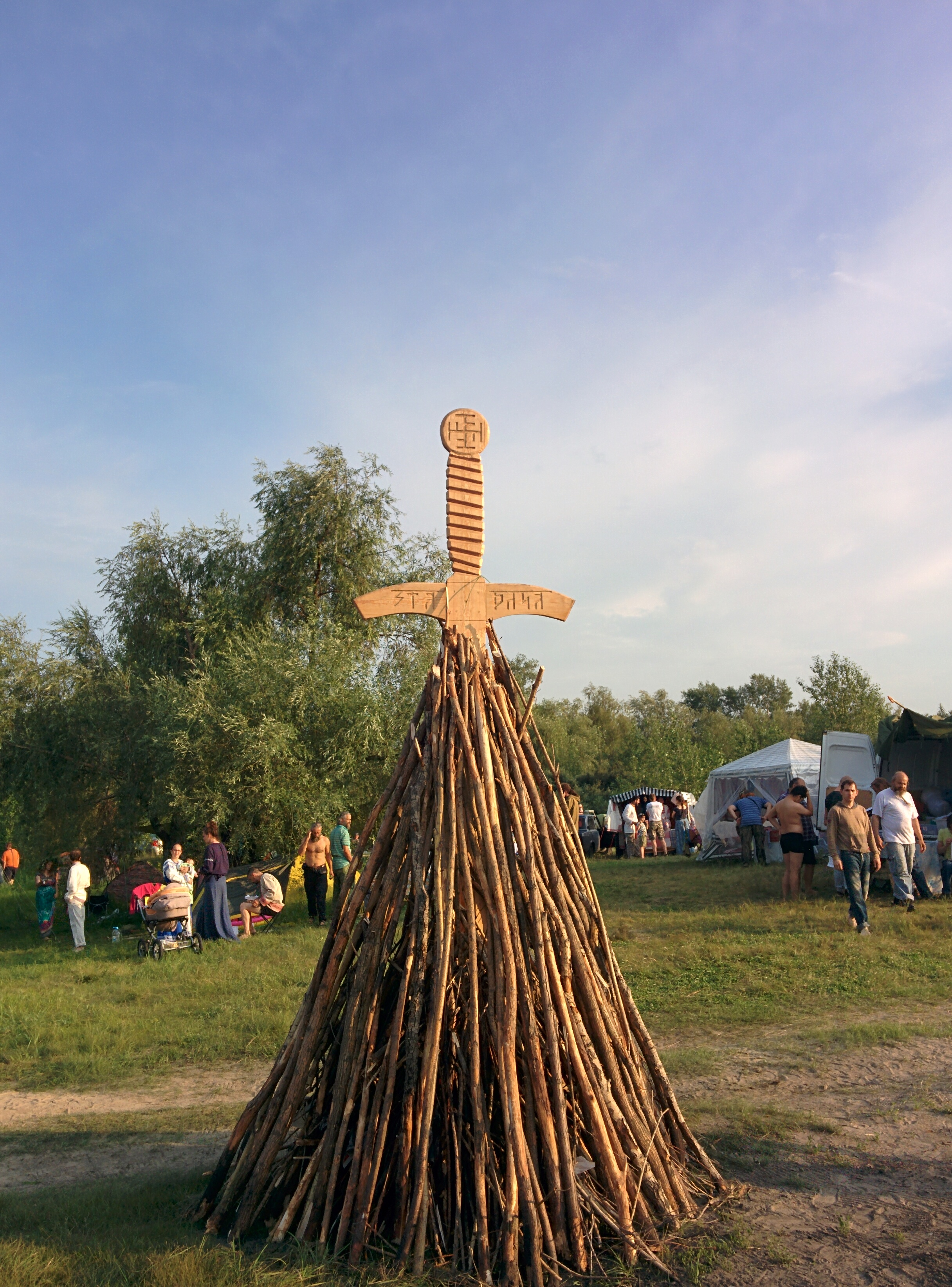 This photo has been taken in the country: Russia